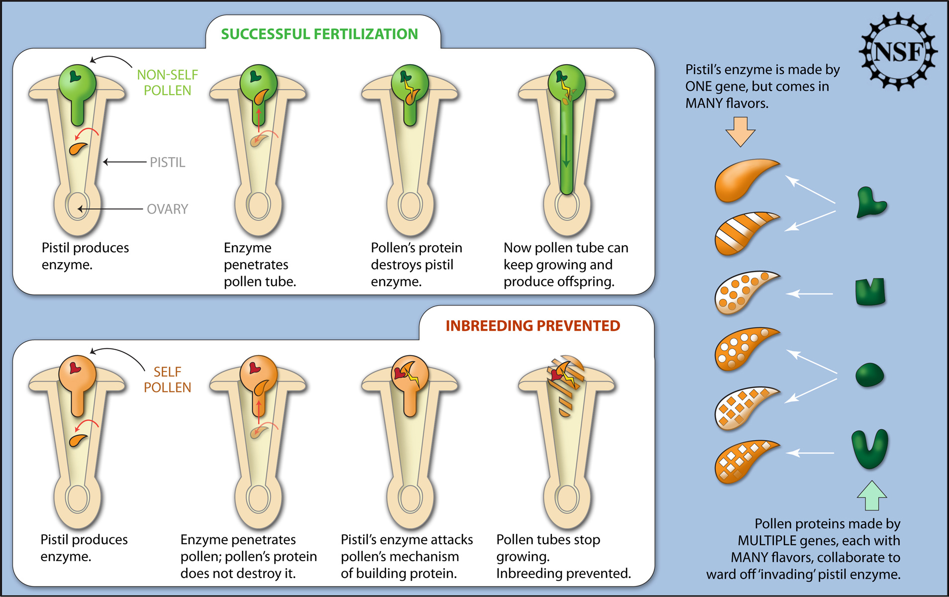 Petunias show that the mechanisms behind inbreeding prevention are similar to immune response. This diagram shows non-self pollen fertilizing a petunia and, conversely, self-pollen perishing. The female part of the petunia flower secretes an enzyme that is designed to deter pollen tube growth, thereby preventing fertilization. However, in the cases that the pollen has come from a genetically different plant, the pollen produces its own protein that combats the pistil's enzyme. With the enzyme out of the way, the pollen tube can keep growing and fertilization can occur. To learn more, see the NSF news release. Credit: Zina Deretsky, National Science Foundation Visit NSF’s Multimedia Gallery, at for more images, and for video.